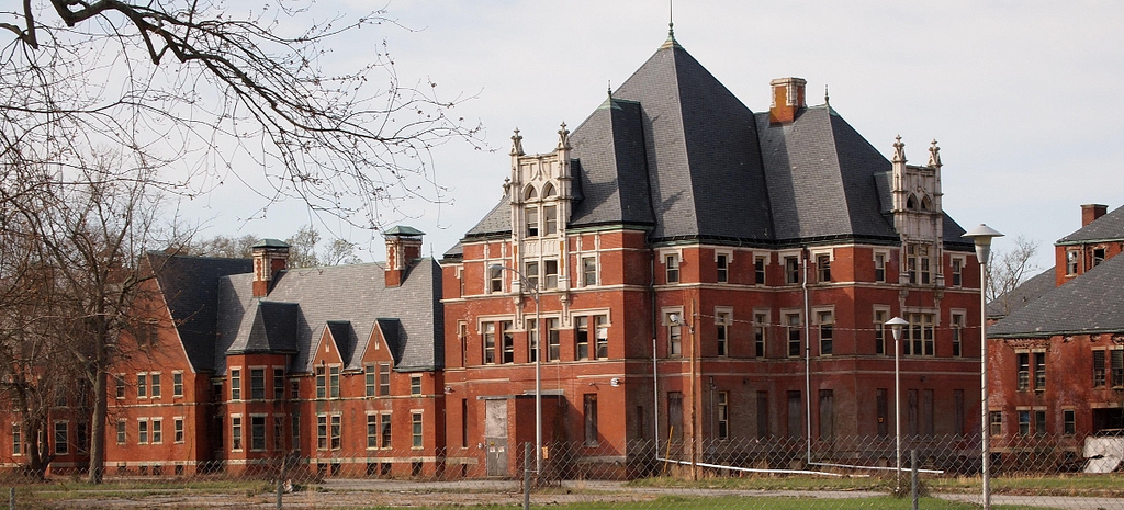 Connecticut - New London County - Norwich National Register of Historic Places #87002424 NRIS 2011 April 22 from Rt 12, view S edit: crop, resize Derelict. Also known as "the state hospital". Straddles the border of Norwich and Preston.